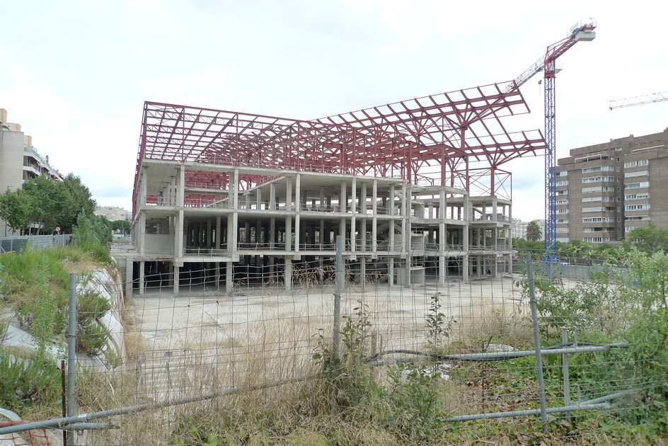 Macro centre comercial del parc de St. Jordi (Reus) (agost de 2013)